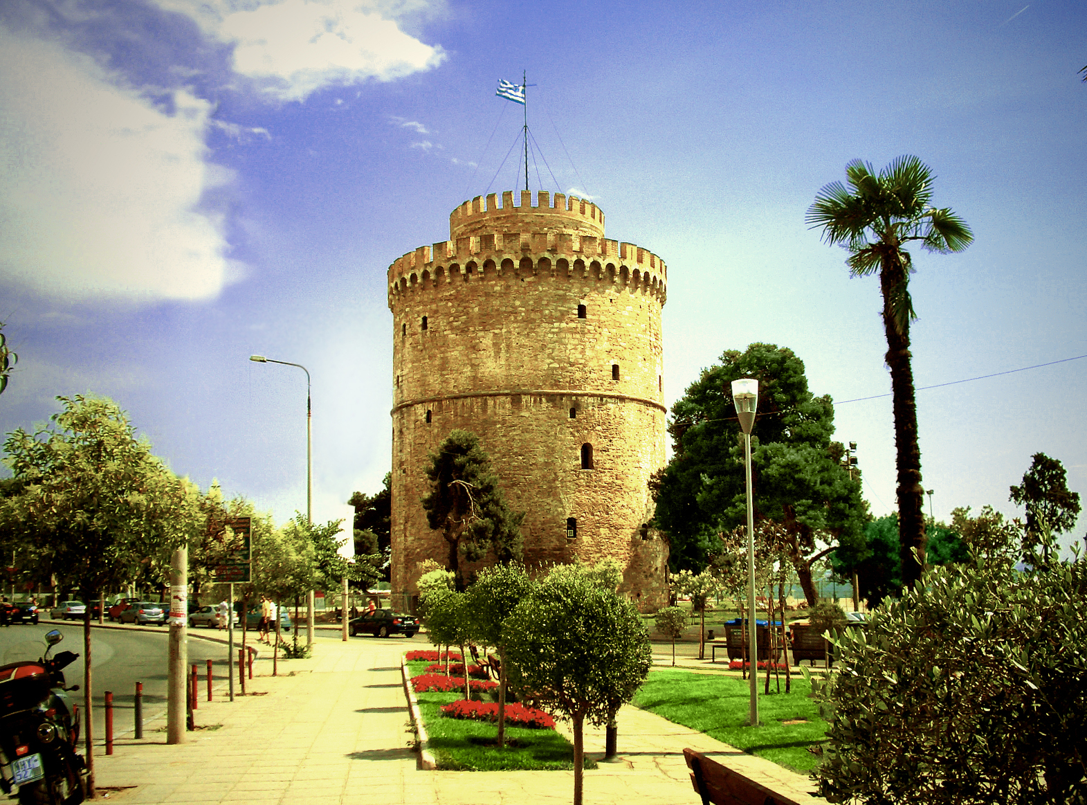 White Tower of Thessaloniki